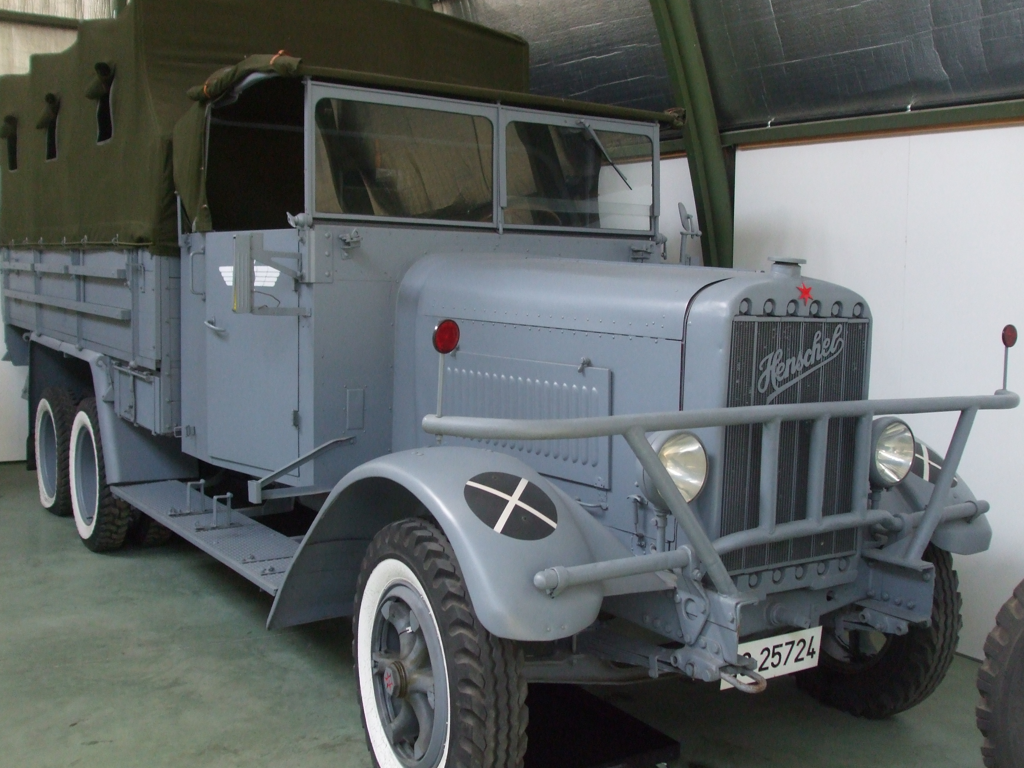 Henschel Hs 33 truck of German Legion Condor used during the Spanish Civil War between 1936 and 1939.